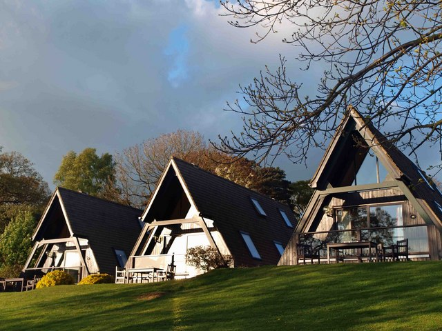 Barnsdale Hall Hotel timeshare lodges. In the grounds of the Best Western Hotel are a number of timber A frame chalets.